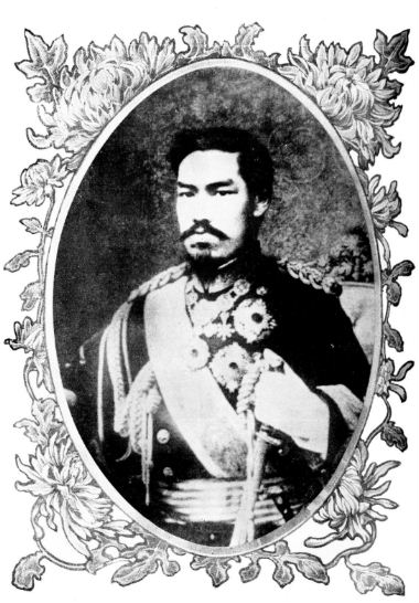 The Japanese Emperor 明治天皇 (The Emperor Meiji)